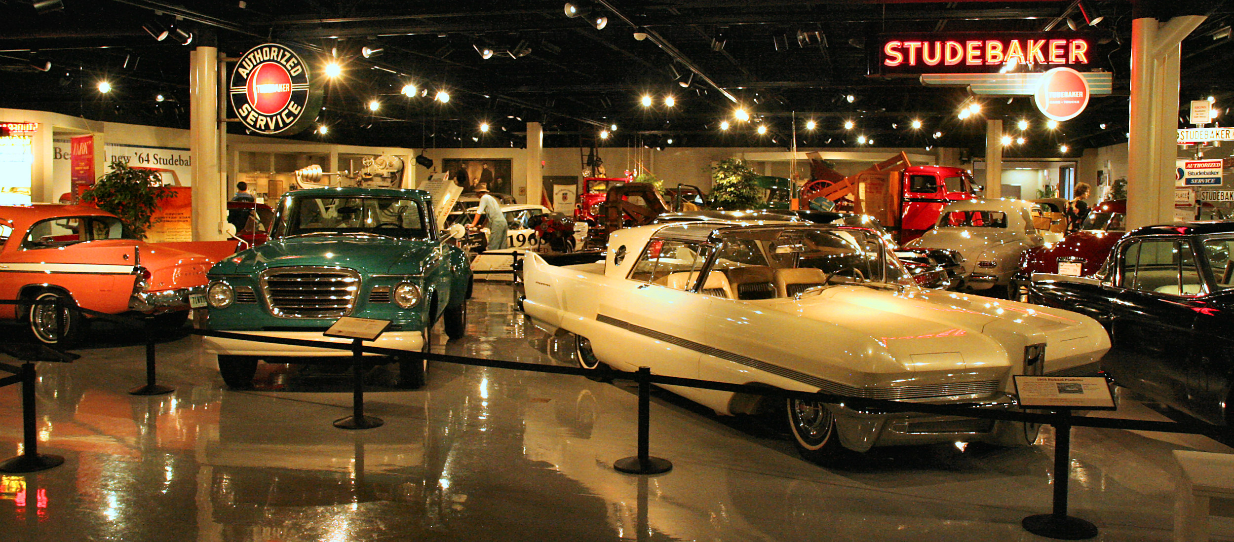 Upper showroom (1935-onwards) of the Studebaker National Museum in South Bend, Indiana. Photo shot by Derek Jensen (Tysto), 2006-April-02